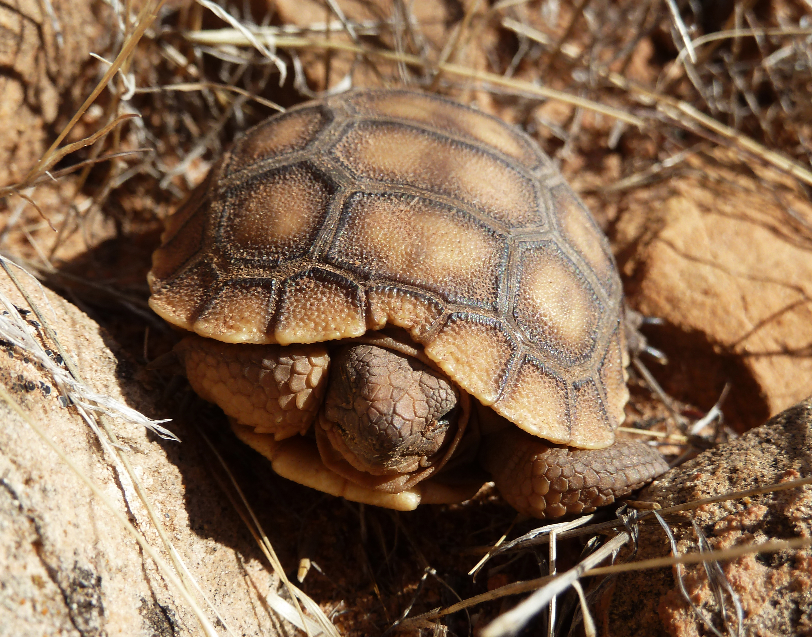 A desert tortoise (Gopherus agassizii) hatchling in Zion National Park, Utah. This hatchling is 2 inches (5.1 cm) in length, which is smaller than a container of chapstick! Desert tortoises are a threatened species rarely seen in the lower elevations of the park. NPS Photo/Cassie Waters